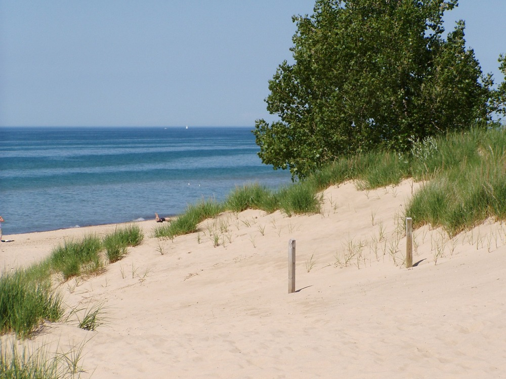 This is a picture of Indiana Dunes National Lakeshore.